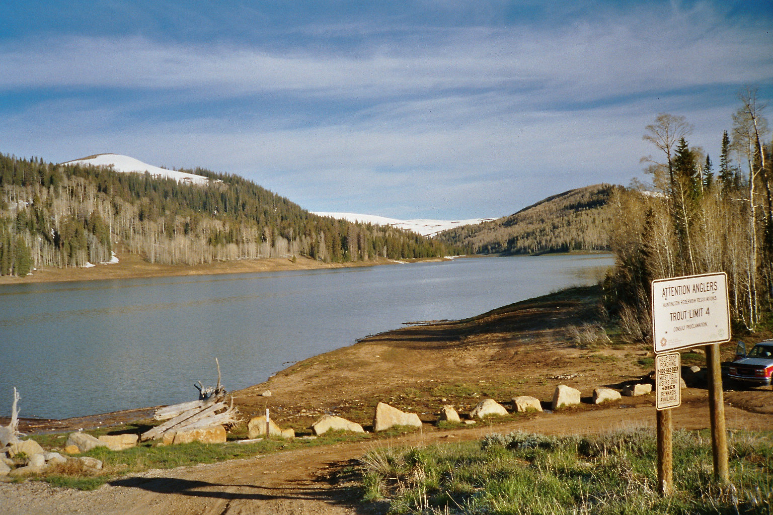 Emery County State Route 31e; Huntington Res. picture taken by myself in June 2005 author: R. Blauert Dk4hb